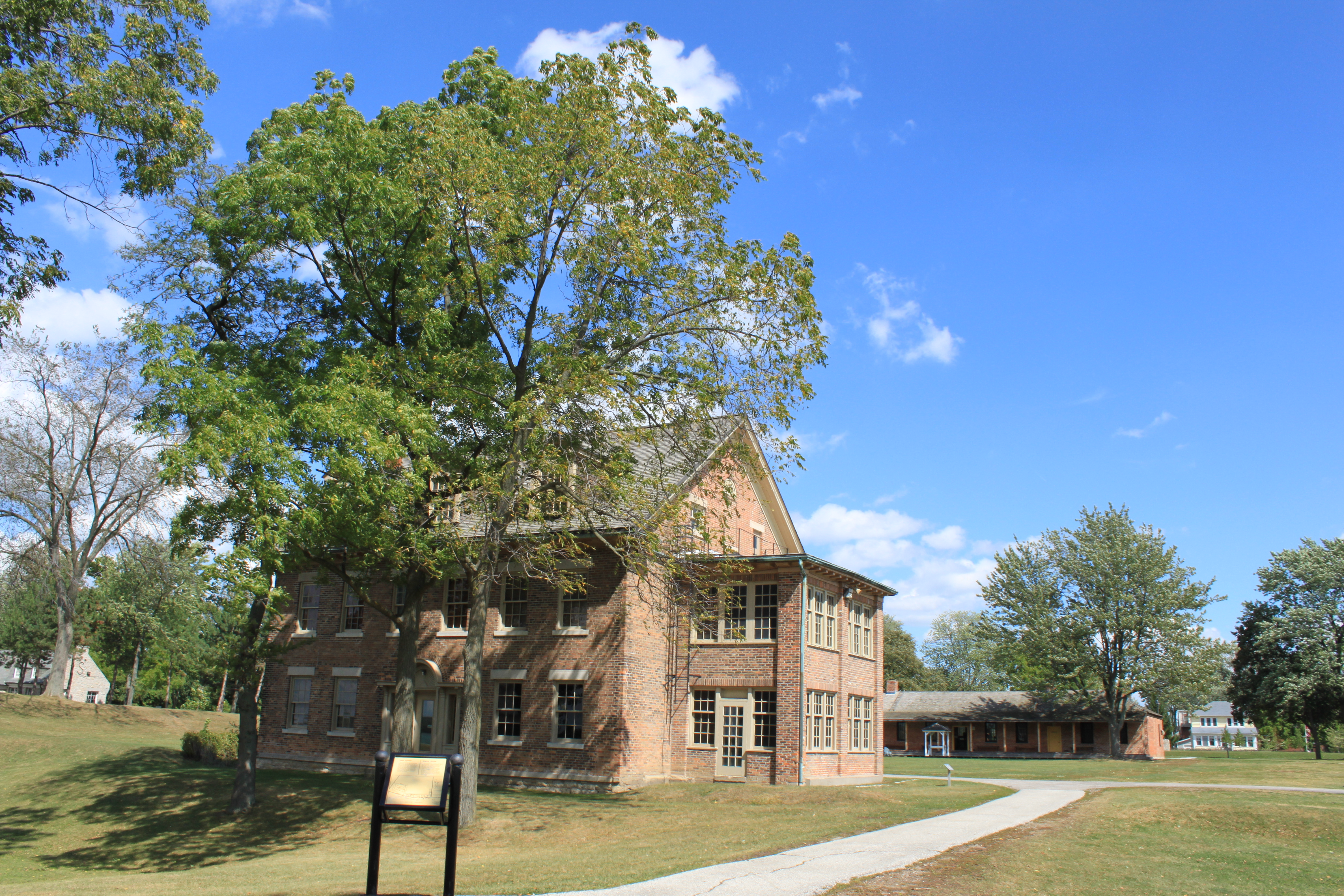 Fort Malden National Historic Site, Ontario, exhibits buiding and restored barracks.